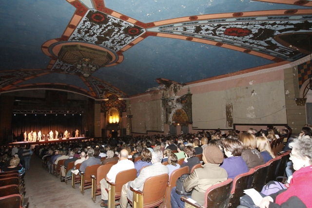 Published at above website with the following information "Lansdowne Theatre, 31 N. Lansdowne Avenue, Lansdowne Borough, PA 19050" and "The first public event in The Lansdowne since July 1987 was held in April 2010. “Straight No Chaser” filled the theater for a benefit concert. Photo credit: Todd Murray" The Lansdowne Theatre is listed on the National Register of Historic Places. Designed by William harold Lee.